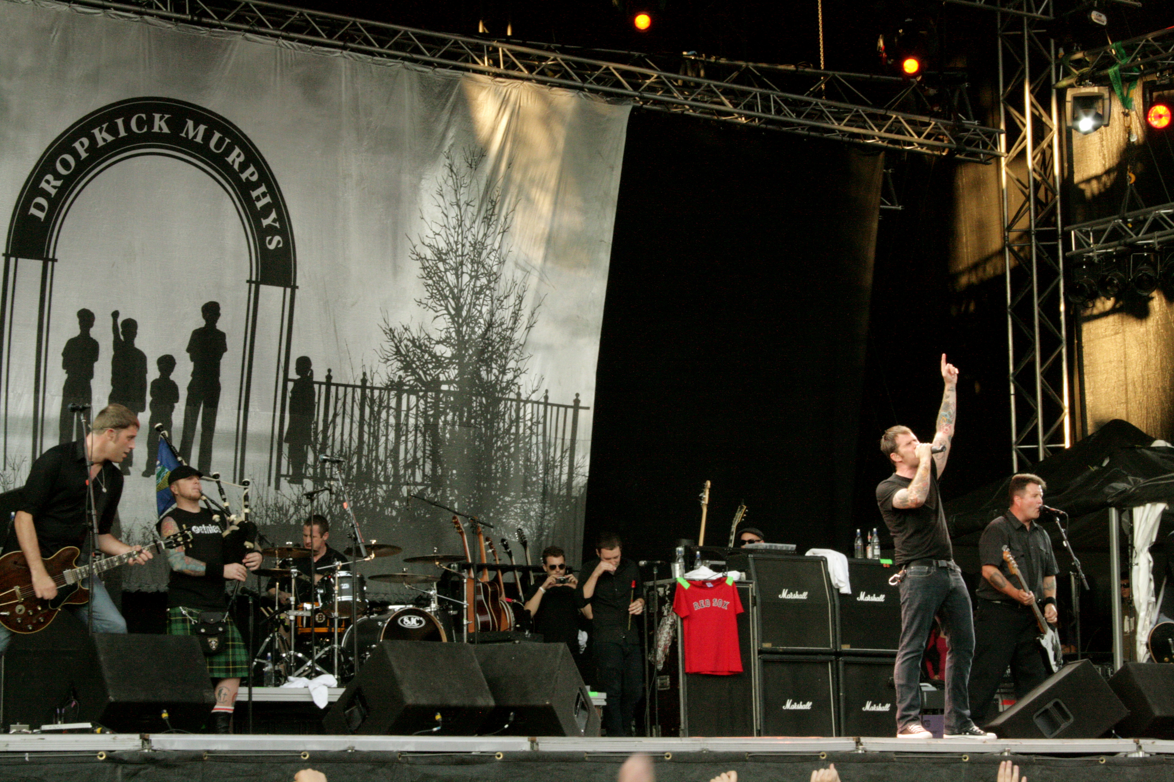 Dropkick Murphys playing in Malmö, Sweden during Malmöfestivalen.